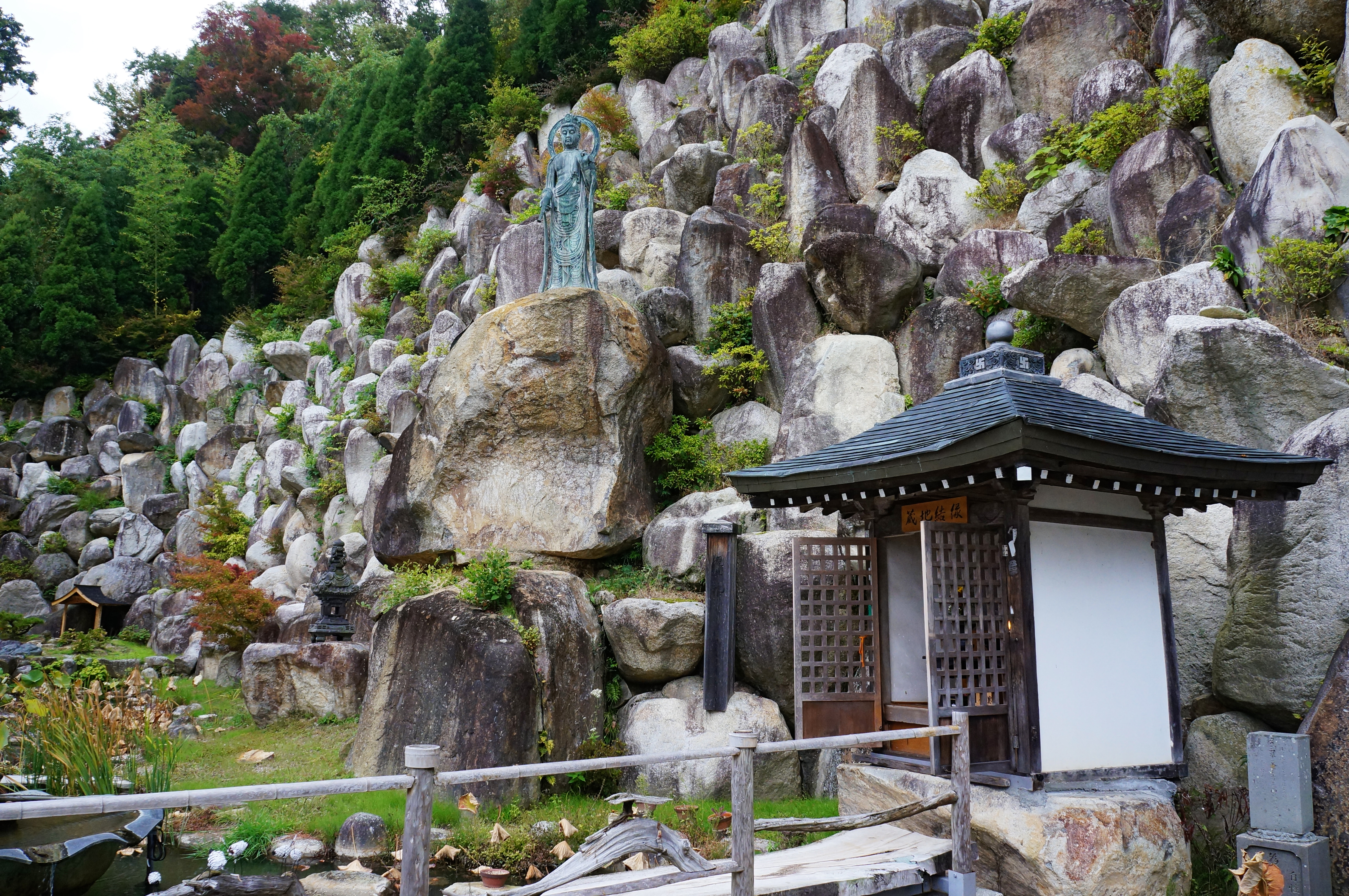 Kannonshō-ji in Azuchi, Omihachiman, Shiga prefecture, Japan.